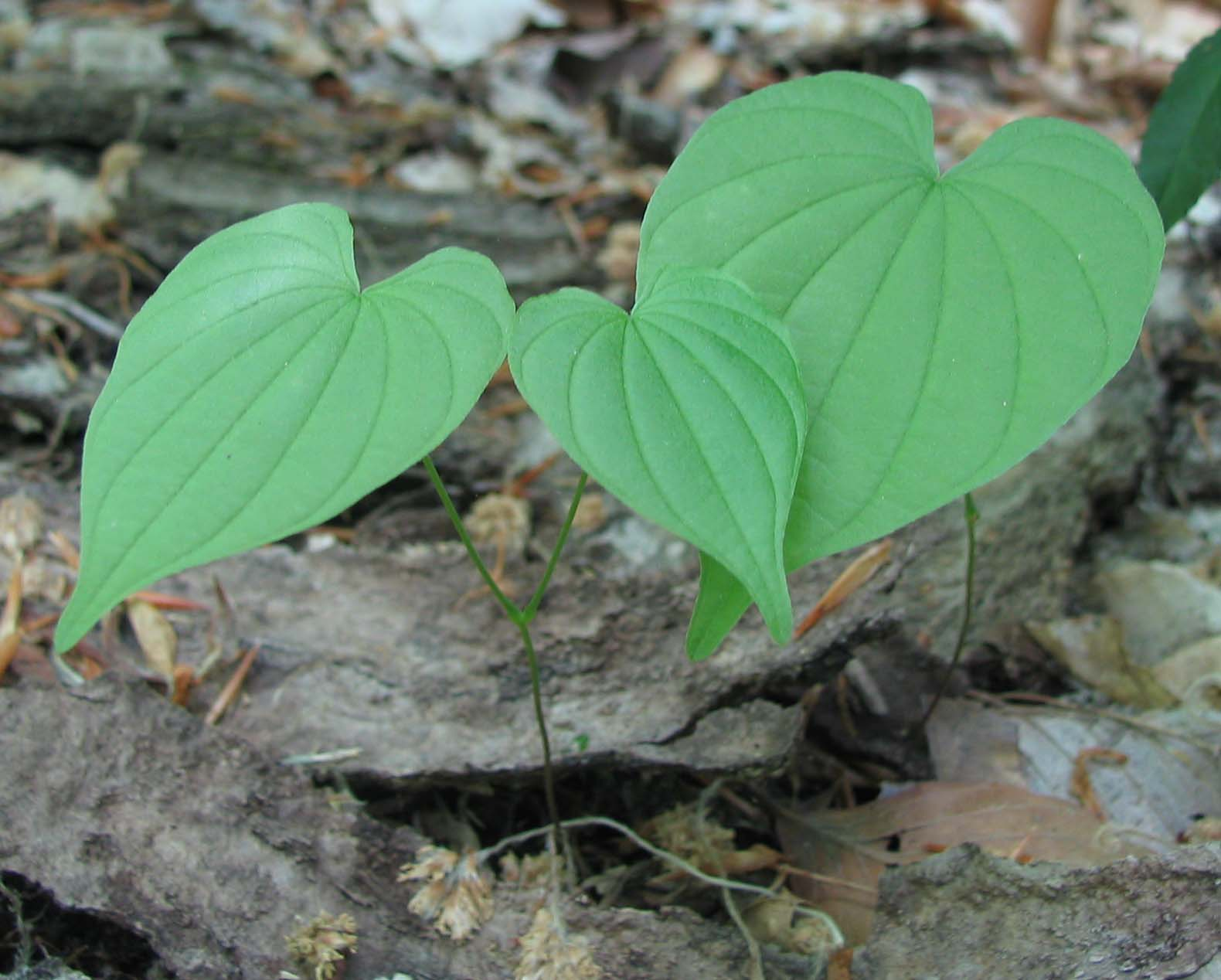 Description Young Dioscorea villosa plant in the woods. Location Charlottesville, Virginia, USA Author Phyzome is Tim McCormack